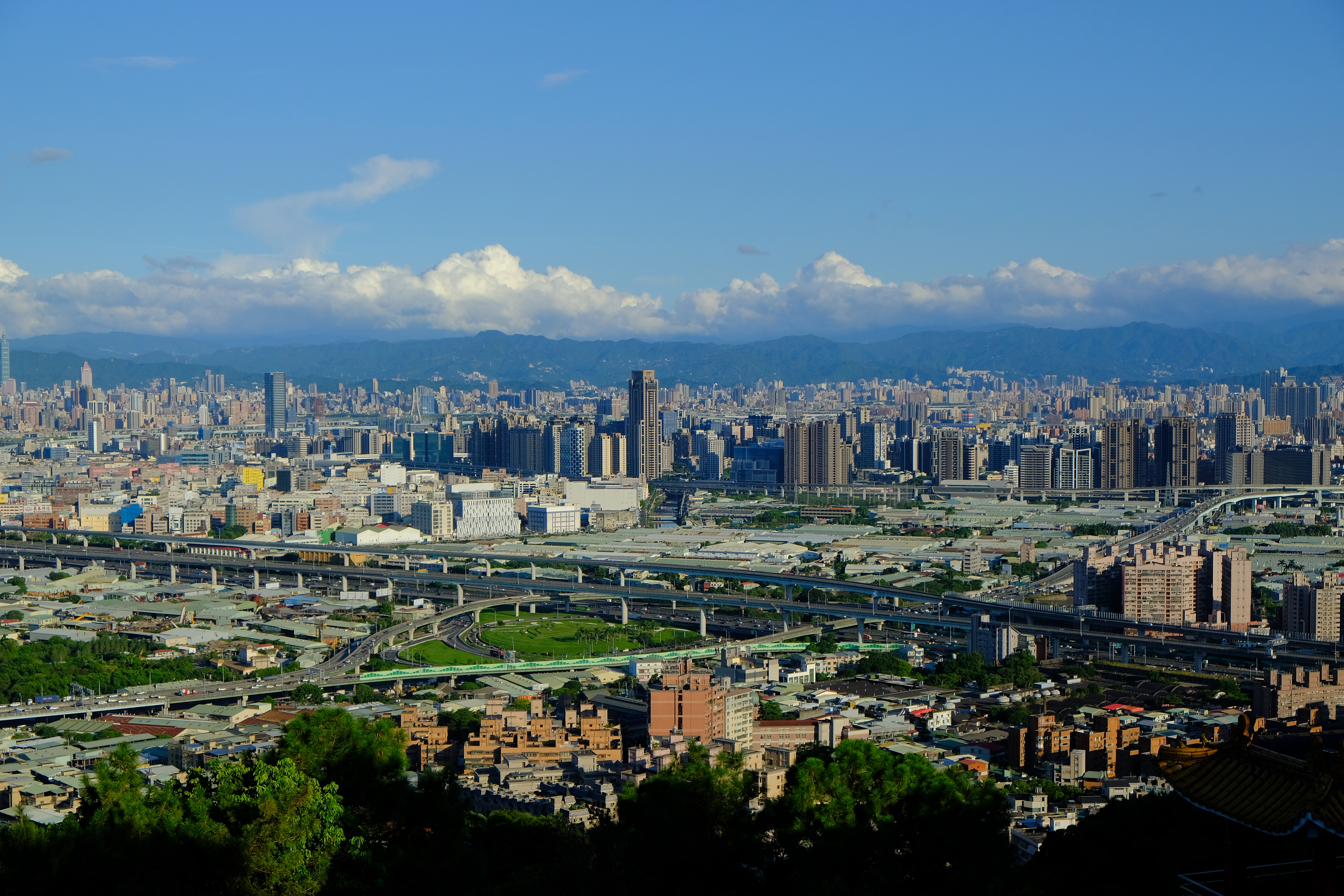 中文（台灣）: 2019 Wugu Interchange of Freeway 1 (Taiwan) 國道一號中山高速公路五股交流道